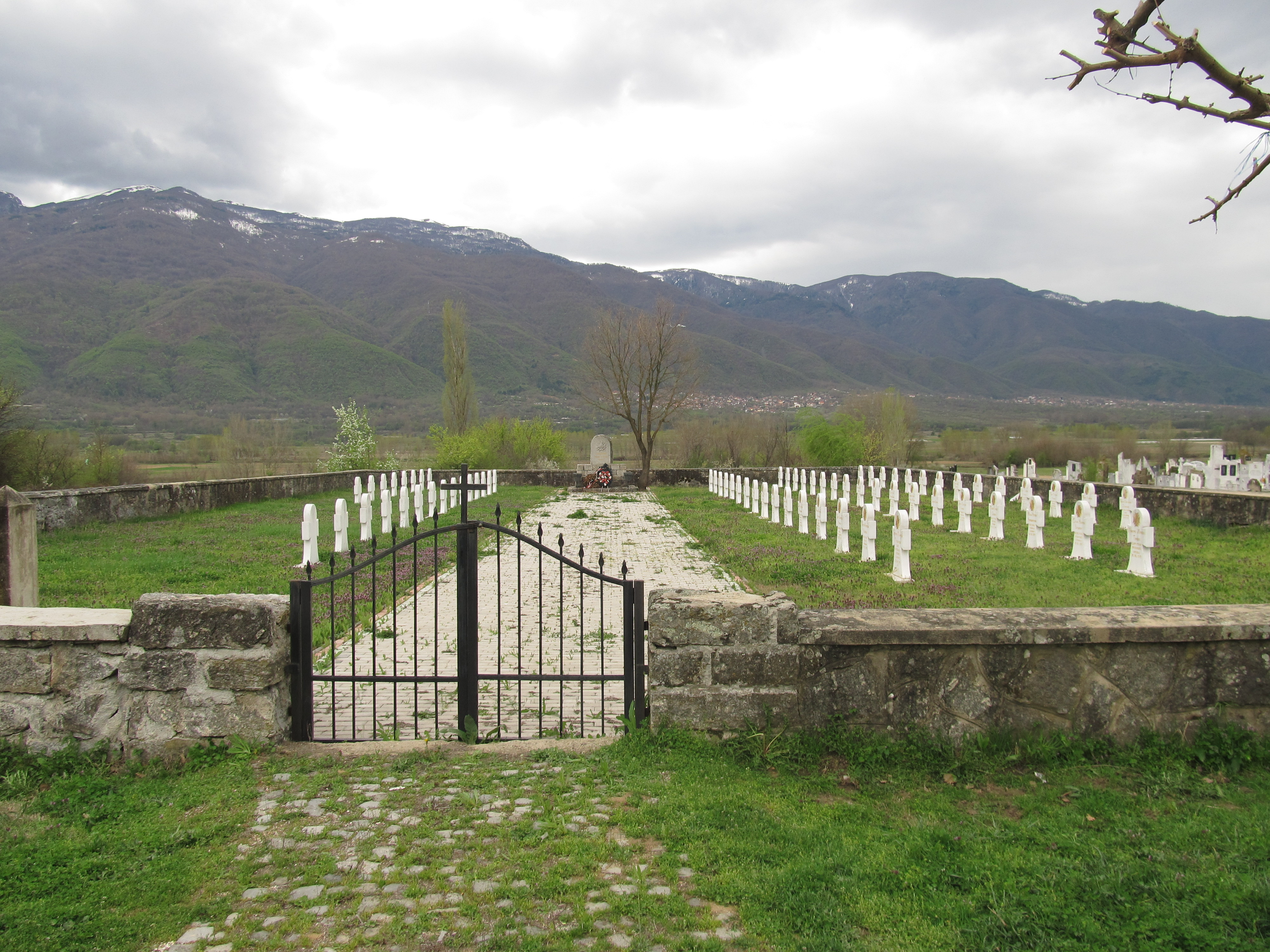 Bulgarian military cemetery (1915-1916) in Novo Selo, Macedonia